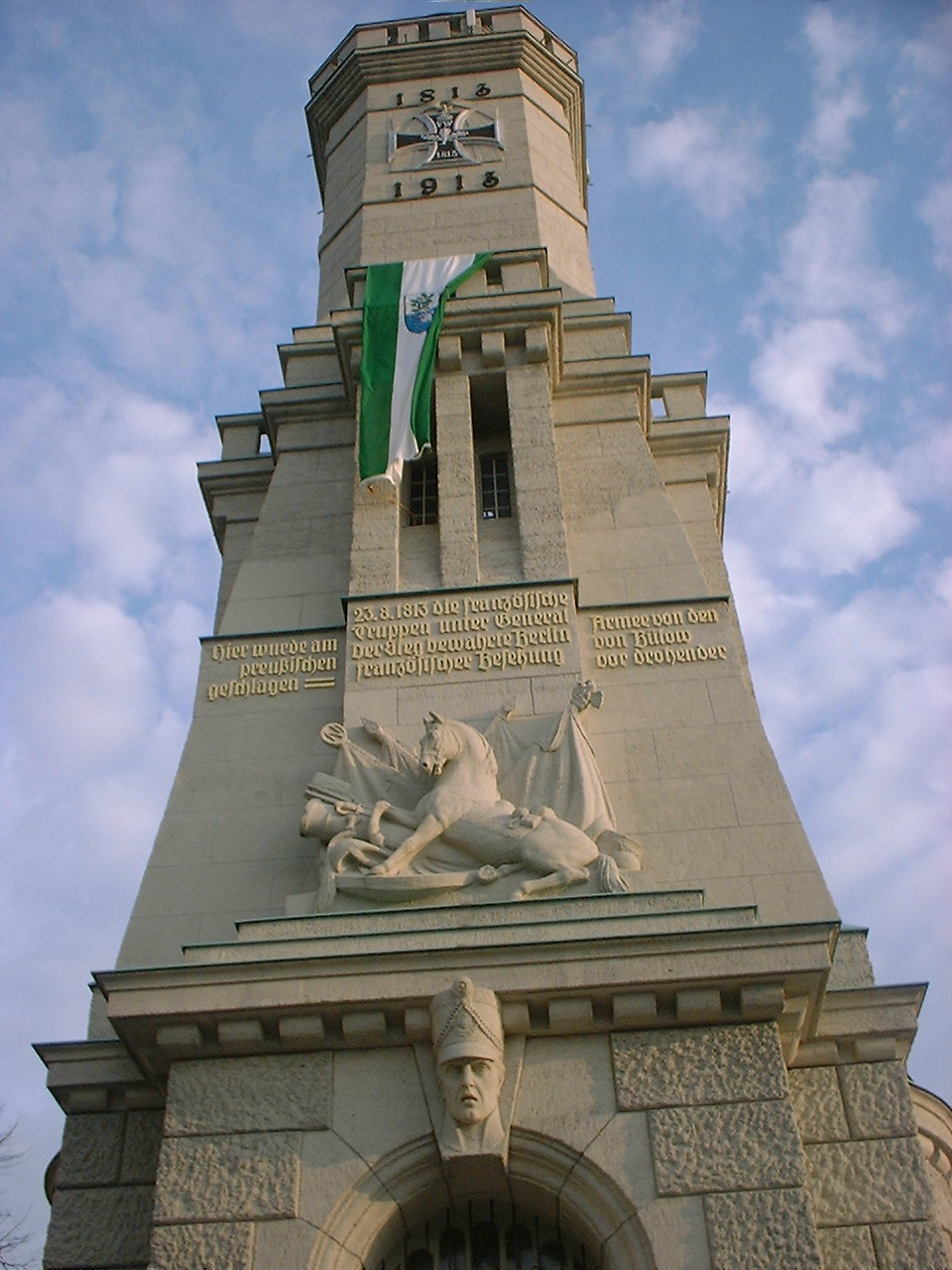 Memorial of the battle of Großbeeren, Brandenburg, Germany